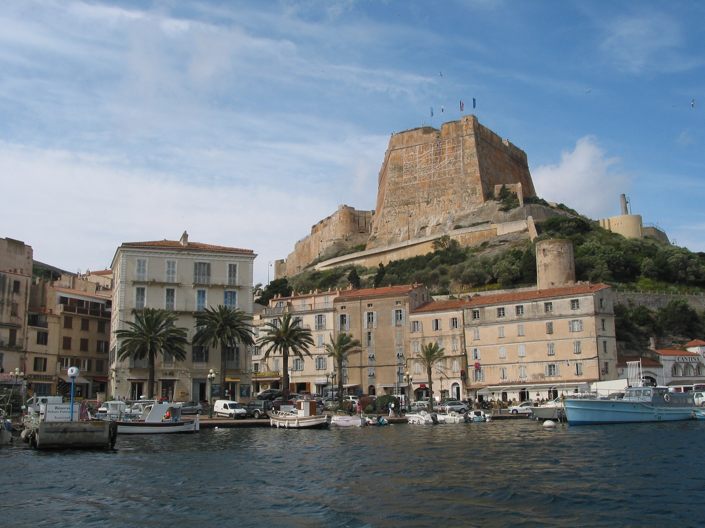 Bunifacio France, the port.